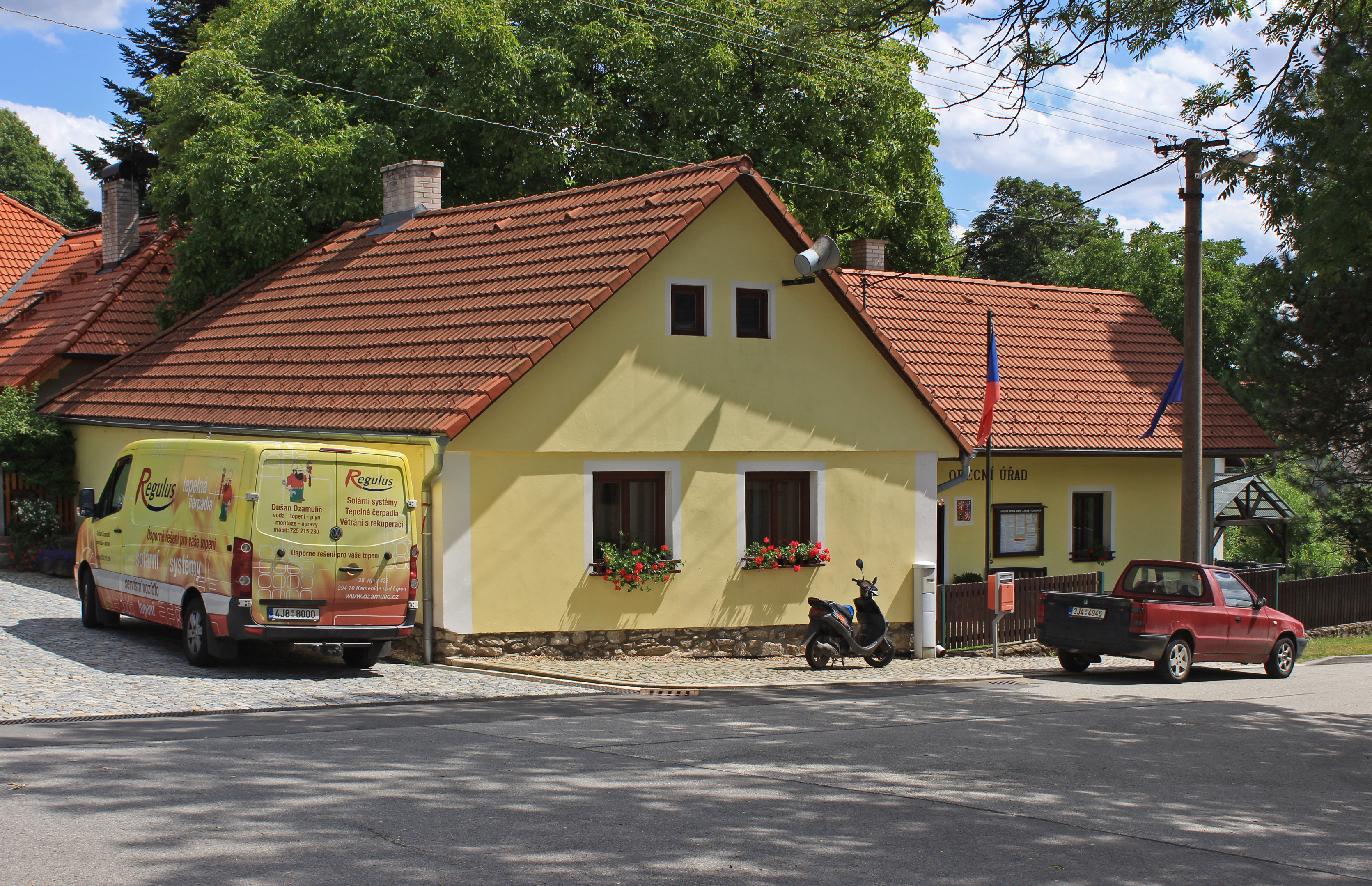 Municipal office in Vlasenice, part of Lhota-Vlasenice, Czech Republic.